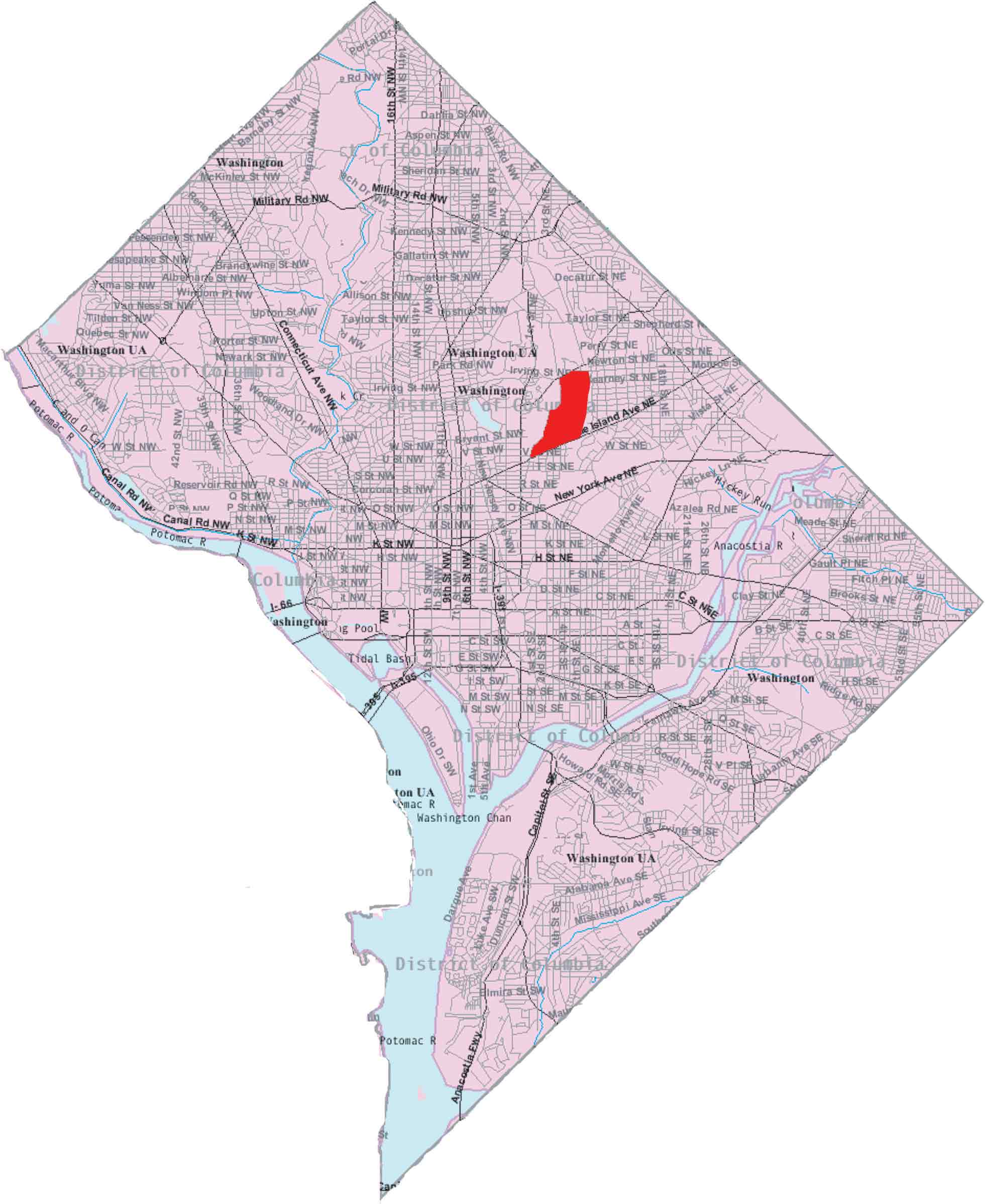 This image is a modified version of a self-generated reference map from the U.S. Census Bureau's American Factfinder at by Wikipedia user Msclguru.